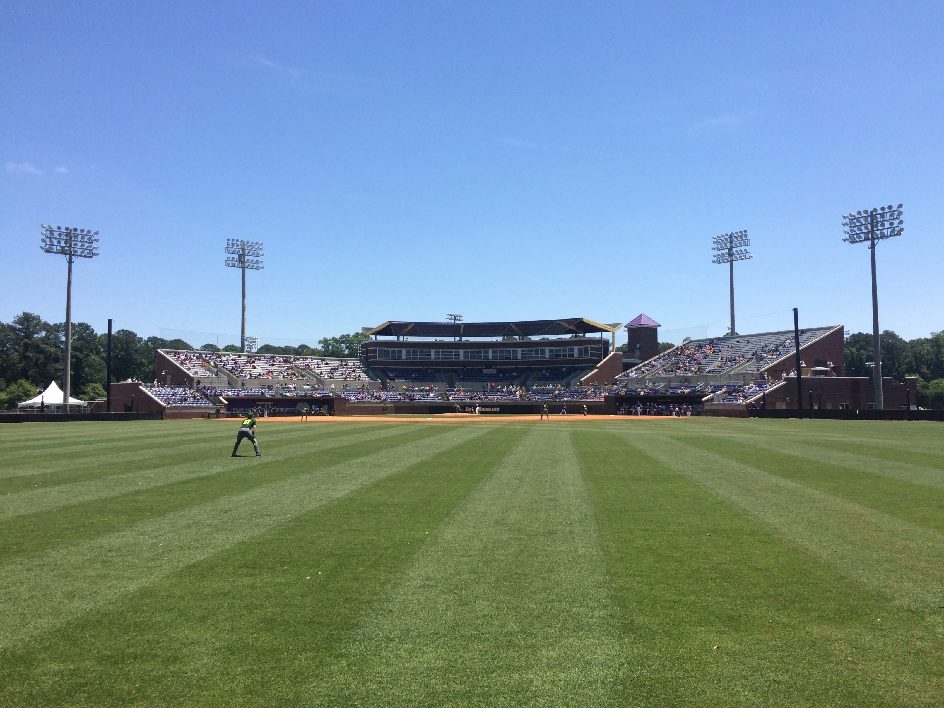 Clark-LeClair in 2016